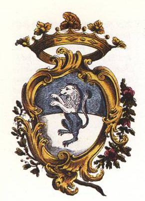 Coat of arms of House of Pisani, colored copperplate print